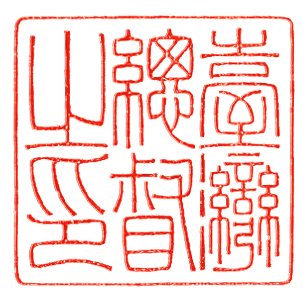 Governor-General_of_Taiwan_seal